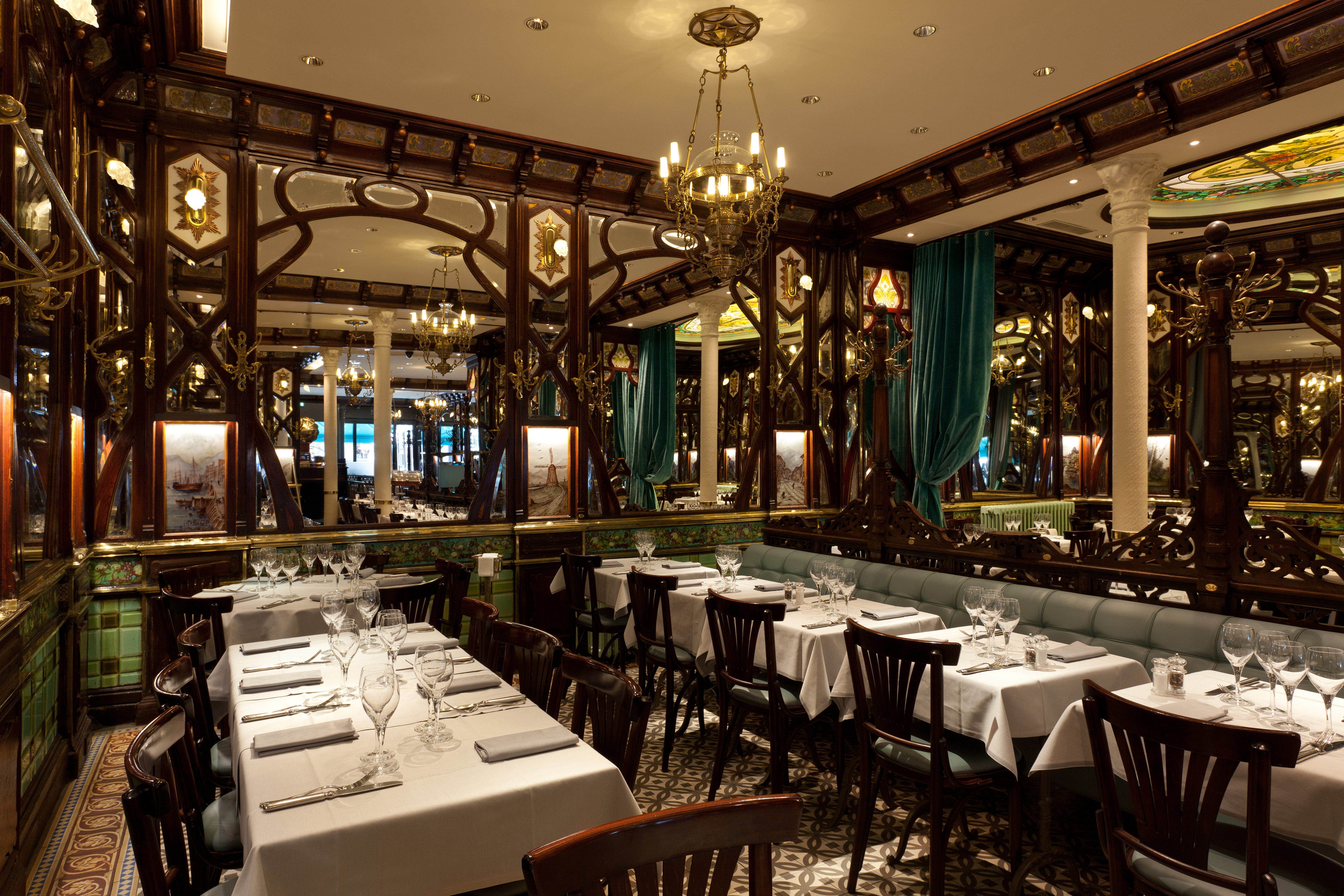 Interior of the Brasserie Vagenende, 142 Boulevard Saint-Germain, 75006 Paris, France.